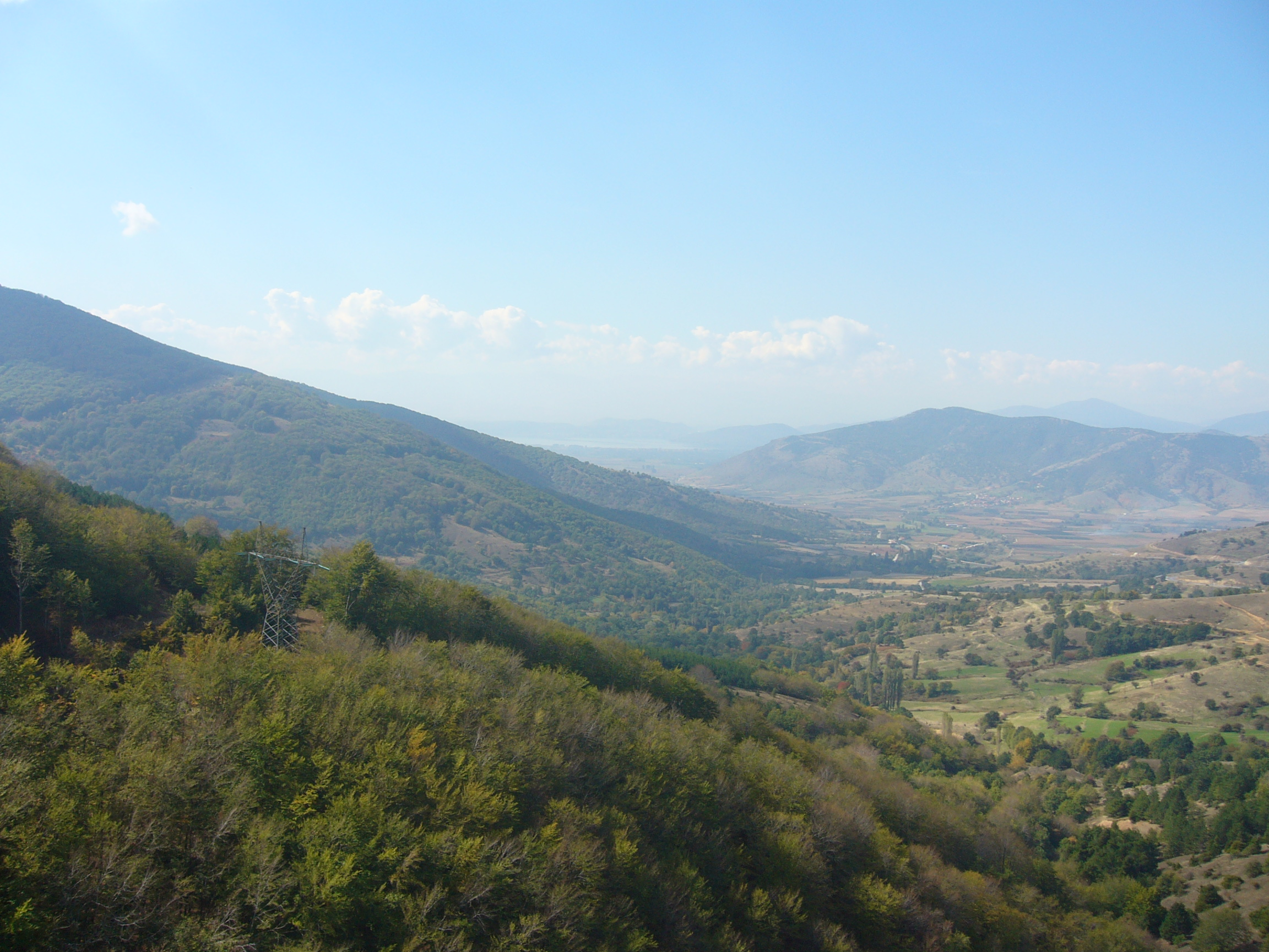 H Βέργα